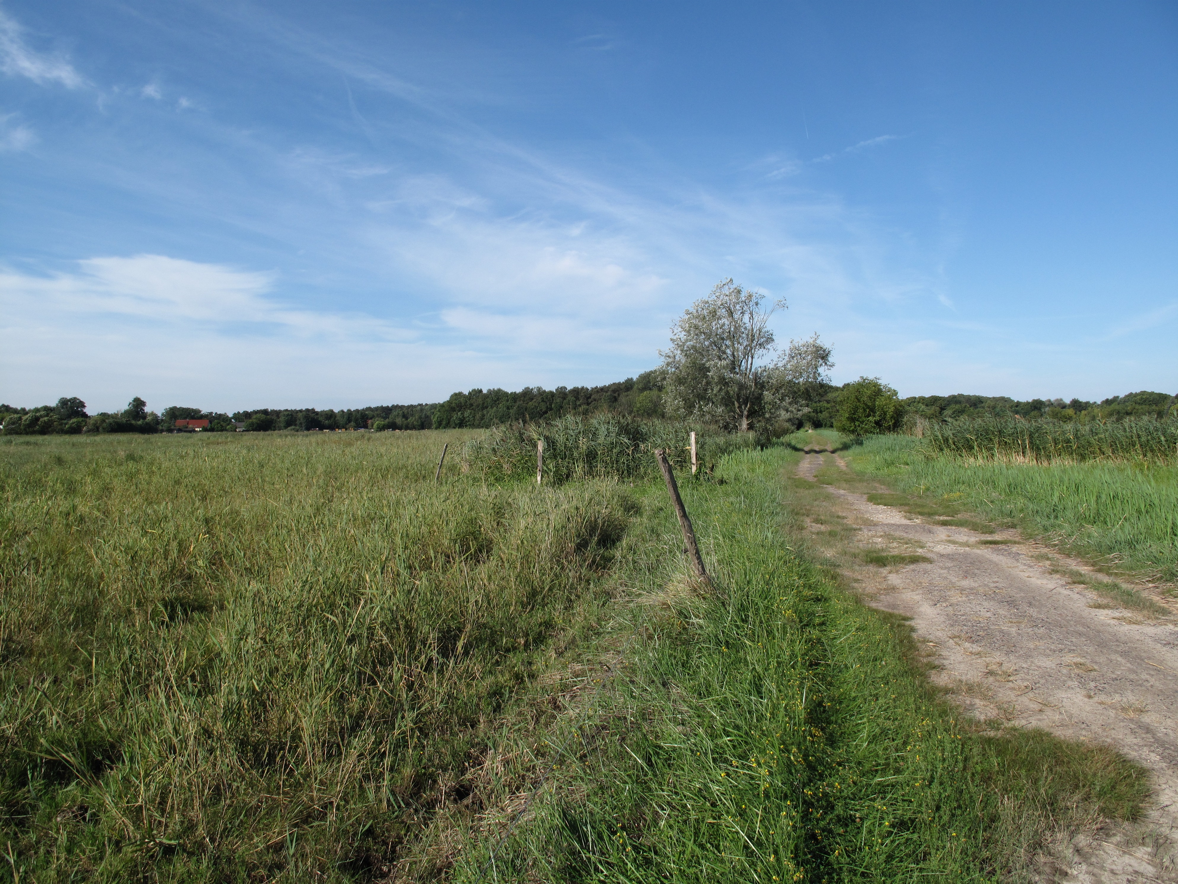 The „Naturschutzgebiet Luchwiesen“ is a Naturschutzgebiet (protected area) and Natura 2000-area in the district Oder-Spree in Brandenburg, Germany. It is situated in the territory of the town Storkow and in the territory of Storkow’s Ortsteil (quarter)) Philadelphia (village). The area covers 109,57 hectare, is flown by the Storkower Kanal (water canal) and is placed in the Dahme-Heideseen Nature Park. It is characterised among others by inland salt marsh-meadows and makes up according to the German Federal Agency for Nature Conservation (Bundesamt für Naturschutz – BfN) the largest and most important inland salt marsh in Brandenburg.